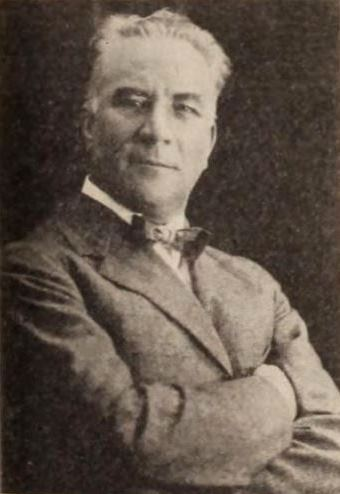 Film director Émile Chautard, on page 47 of the August 30, 1919 Exhibitors Herald.